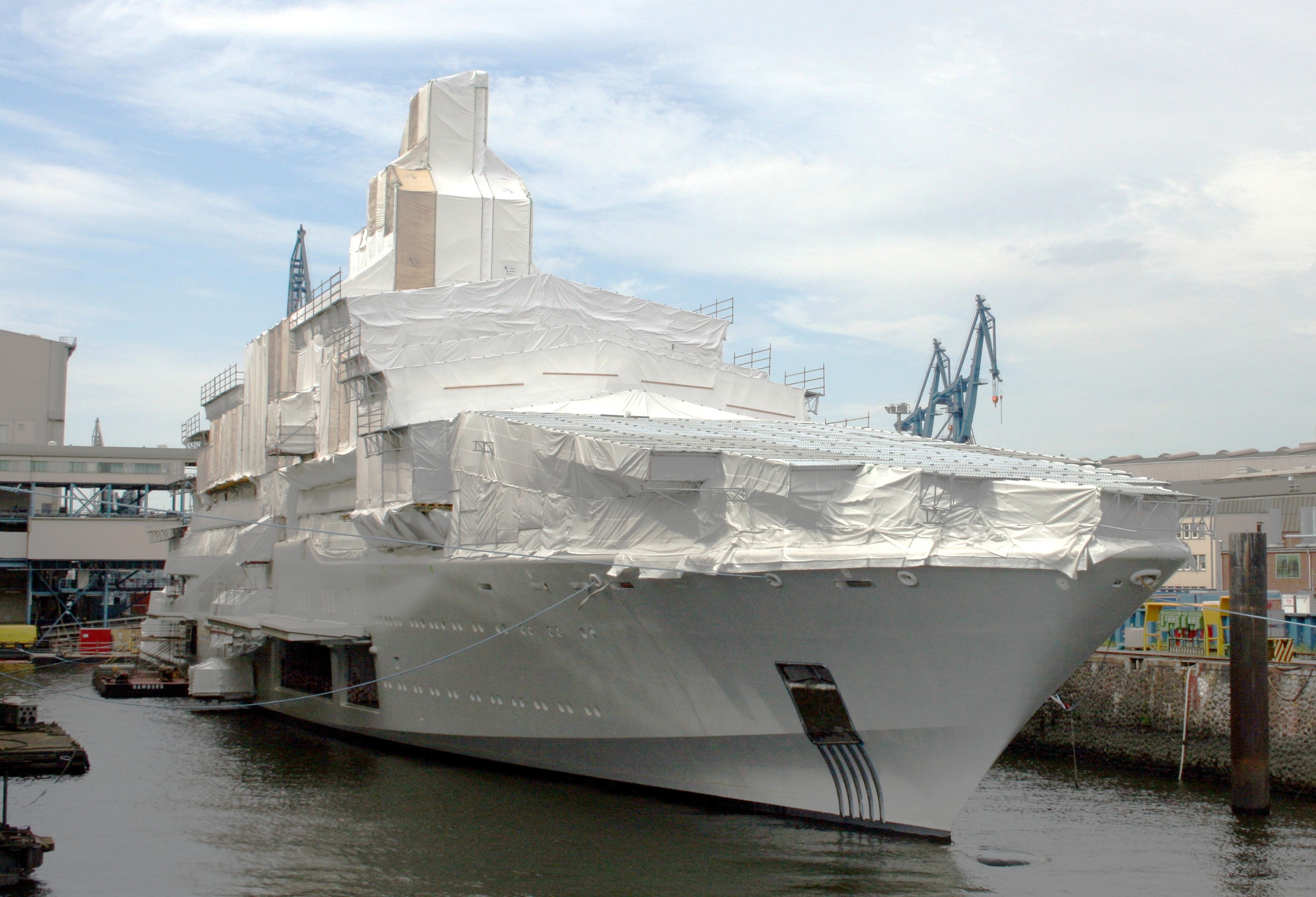 Yacht Eclipse Germany Hamburg Harbour Shipyard Blohm + Voss, 2009-08-01